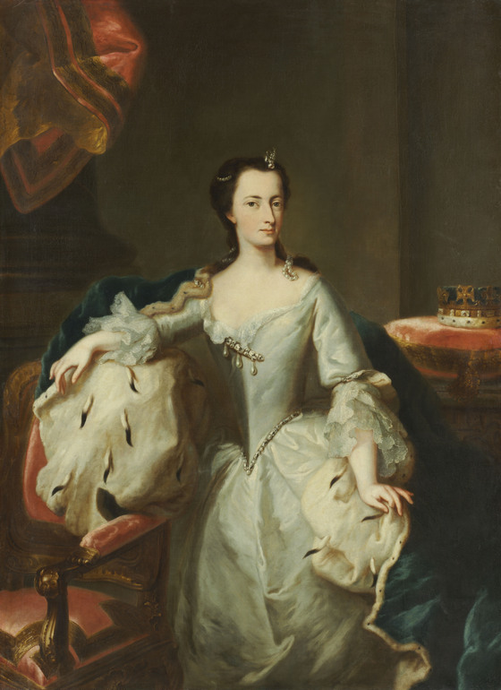 Princess Mary portrayed as Hereditary Princess of Hesse-Kassel